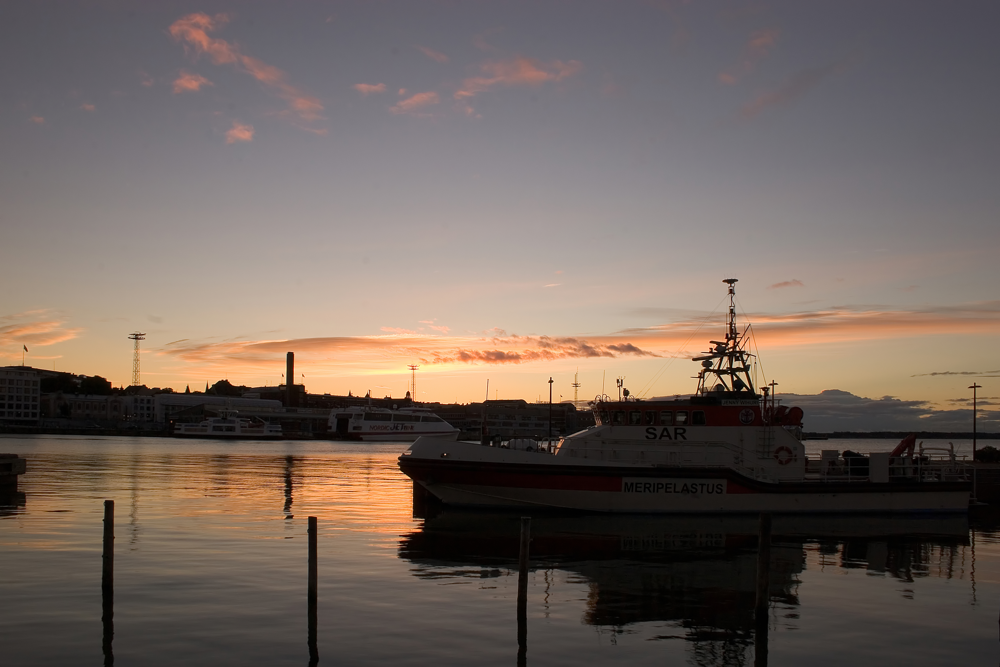 SAR vessel "Jenny Wihuri" at the port of Helsinki.